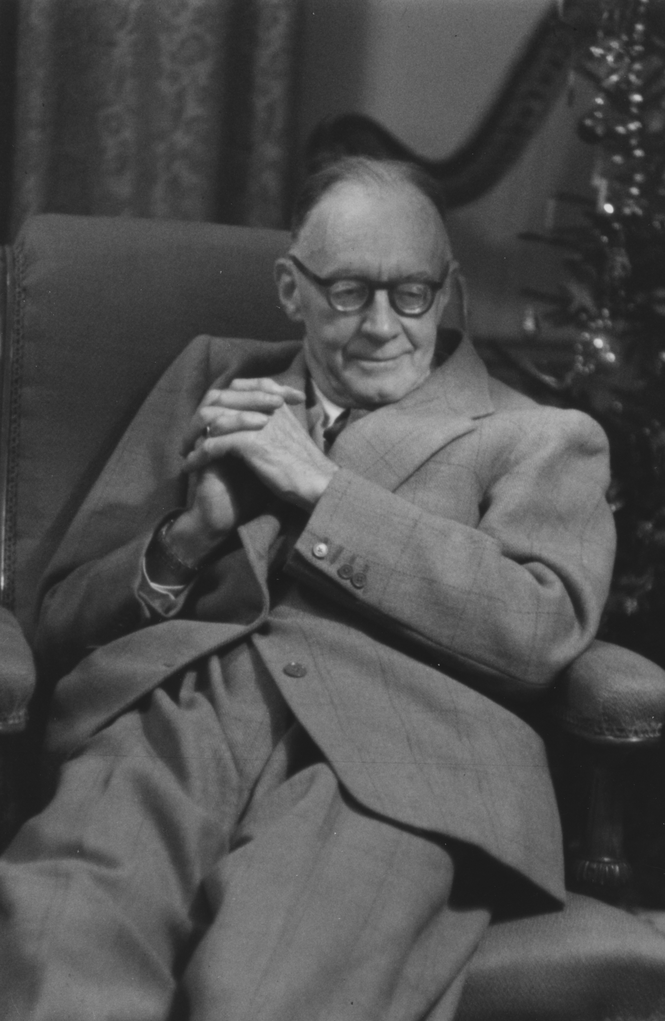 Lord Chorley, LSE Staff, Department of Law 1924-1946 1895-1978 'For many years he was very closely connected with the life of LSE, since 1924 as a lecturer in commercial law, and subsequently, from 1930 to 1946, as Sir Ernest Cassel Professor of Commercial and Industrial Law. He was made a peer in 1945, and in the following year, having been appointed Lord in Waiting in Clement Attlee's Government, he resigned from the Chair. But for years he continued on a part-time basis to teach the special subjects which he had made particularly his own, and to supervise research students. To the end of his days he maintained his links with the School. They were strengthened when in 1970 the School recognised his services by making him an honorary fellow.' Extract from his obituary by Otto Kahn Freund, LSE Magazine, June 1978, No55, p.8 IMAGELIBRARY/107 Persistent URL